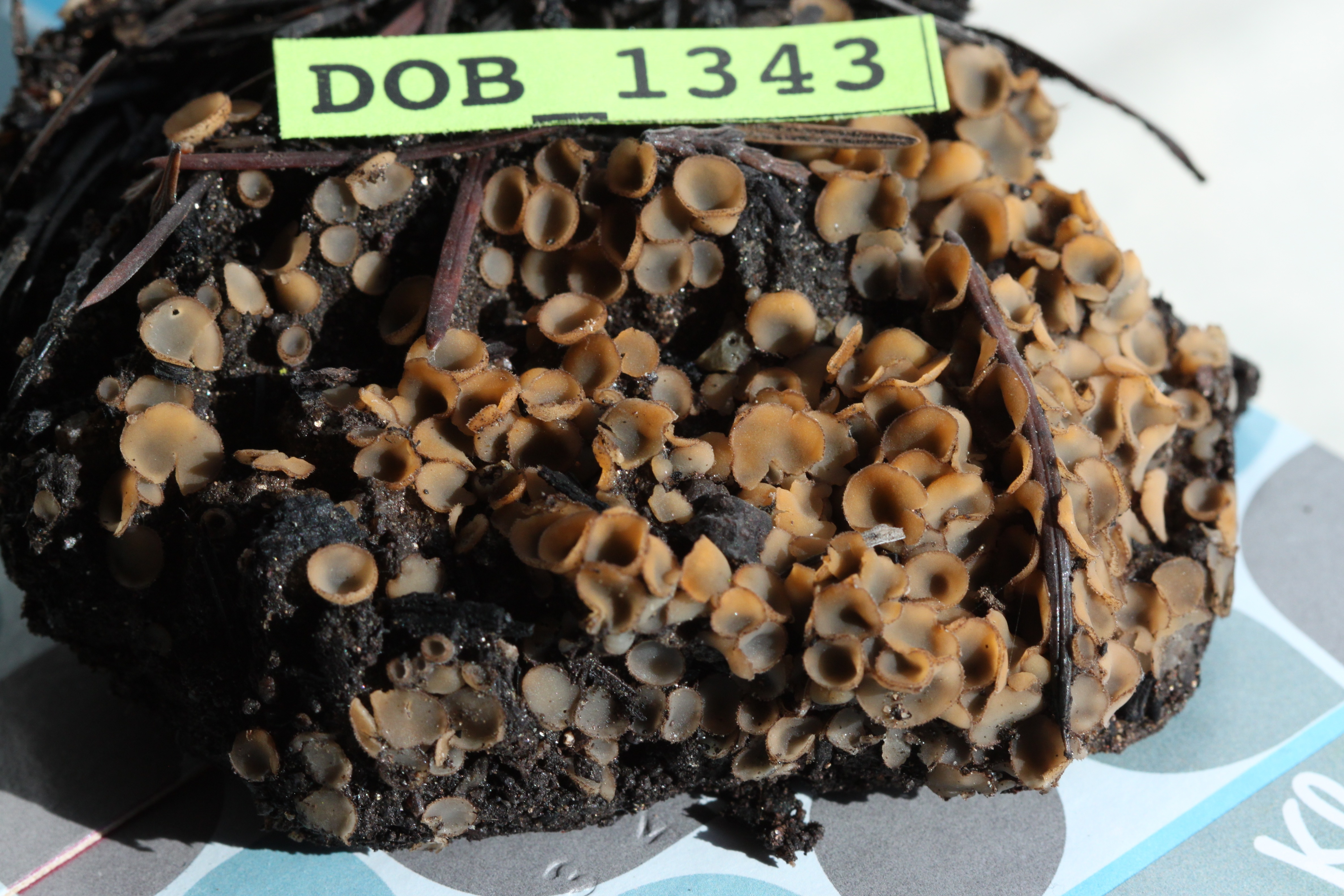 Fruit bodies of the ascomycete fungus Tricharina praecox (P. Karst.) Dennis. Specimen from Hardin Flat Rd., Stanislaus National Forest, Groveland, California, USA. Identity confirmed with ITS DNA sequencing.